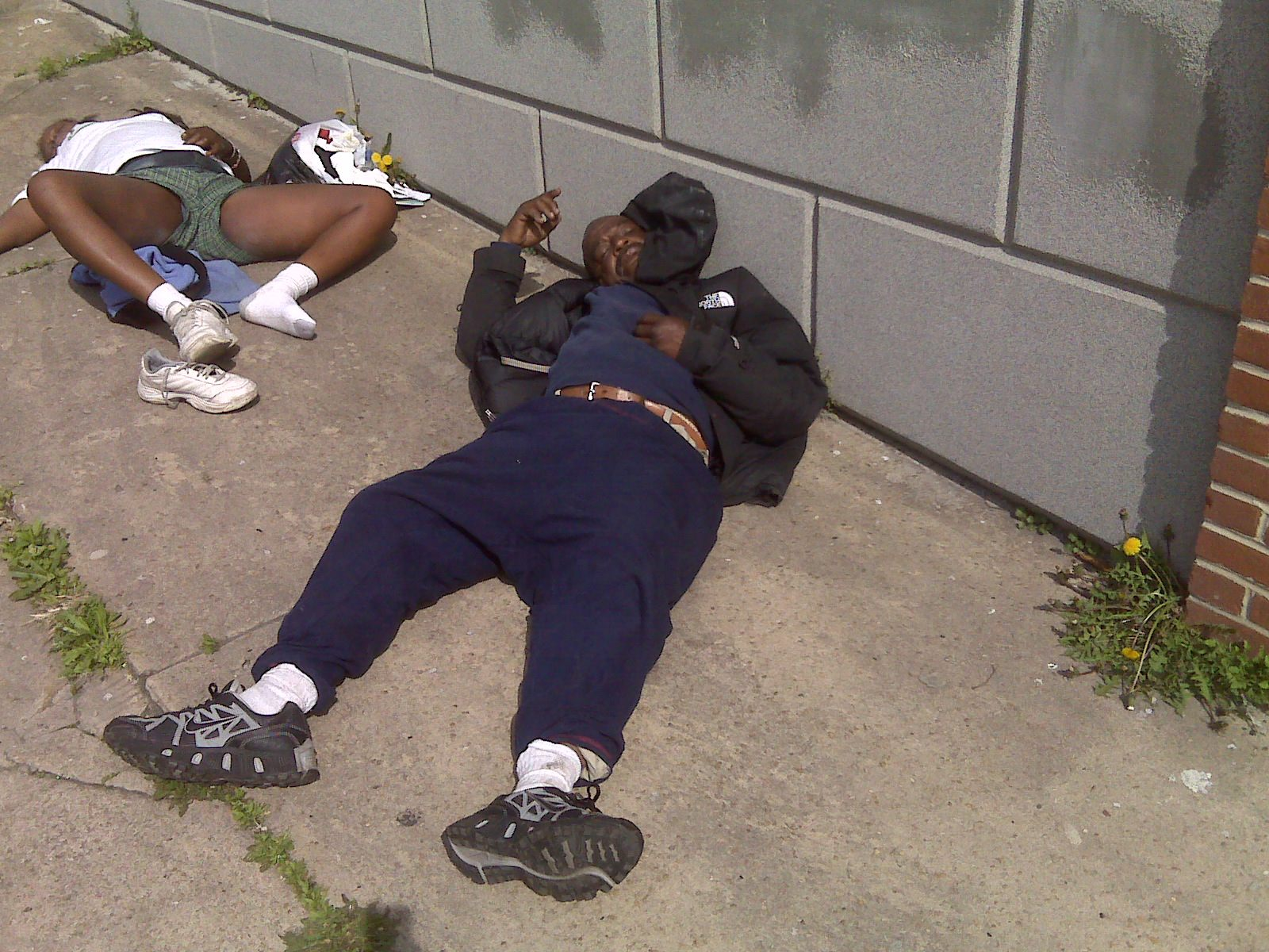 Two intoxicated homeless people passed out in the Canton section of Baltimore. Right before the photo was taken, the pair was drinking a case of Milwaukee's Best, causing them to become inebriated and lie down on the sidewalk.